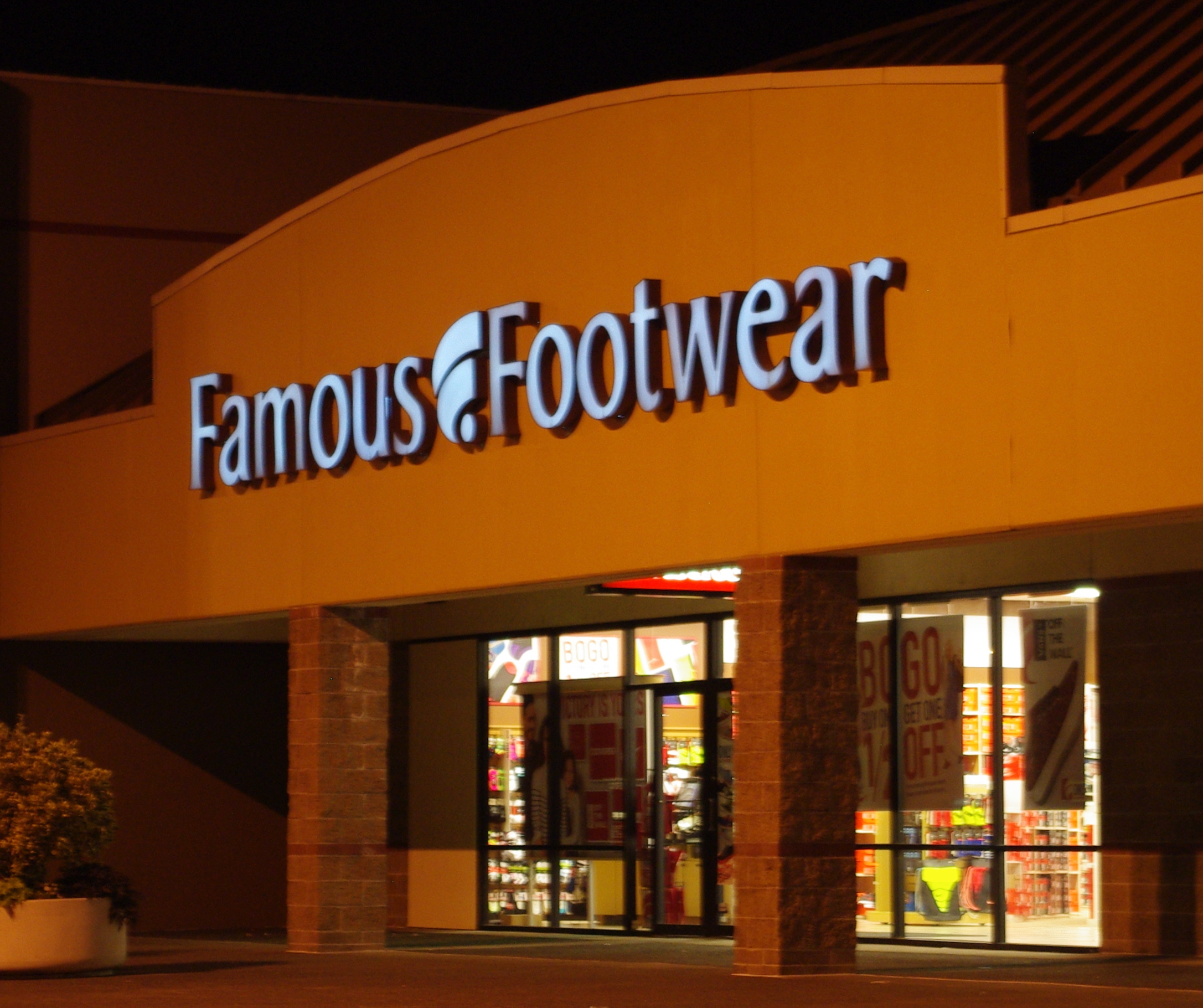 Famous Footwear at the Sunset Esplanade in Hillsboro, Oregon.